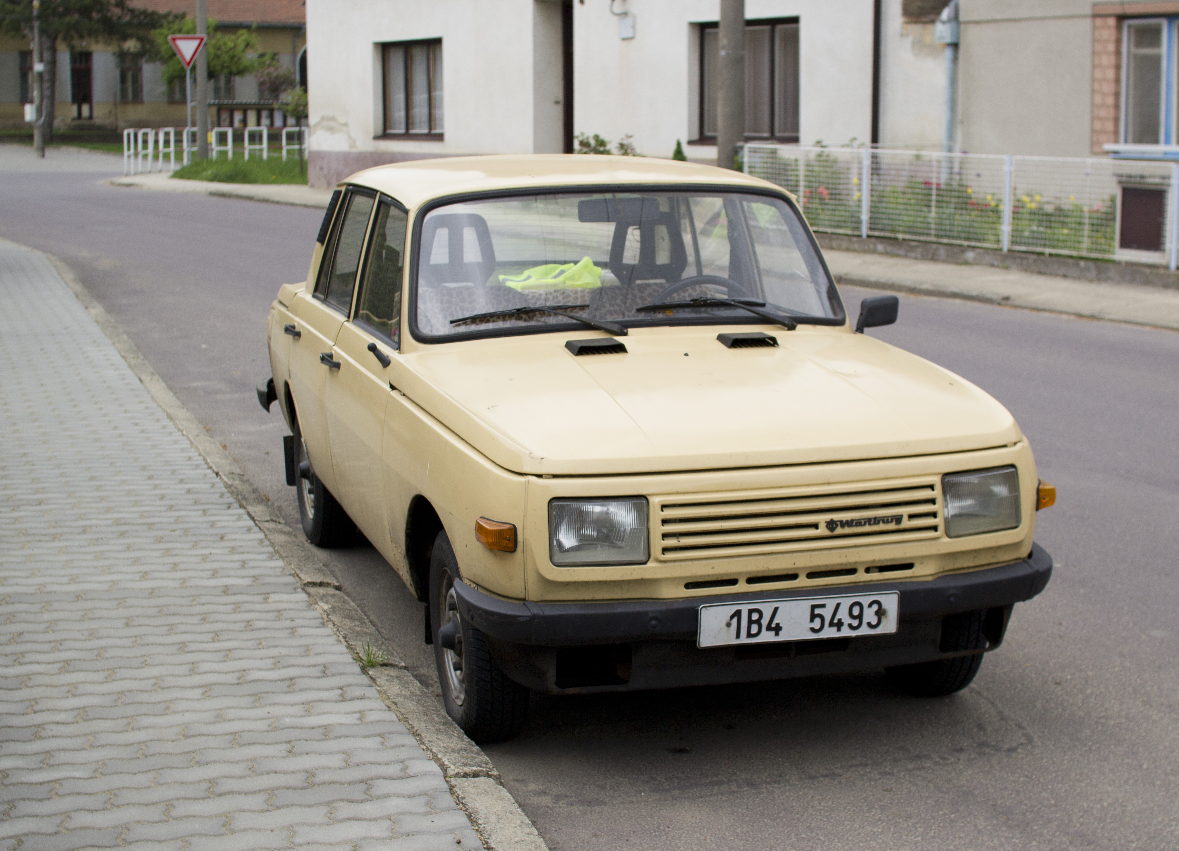 Wartburg, Dobřínsko, Znojmo District, South Moravian Region, Czech Republic